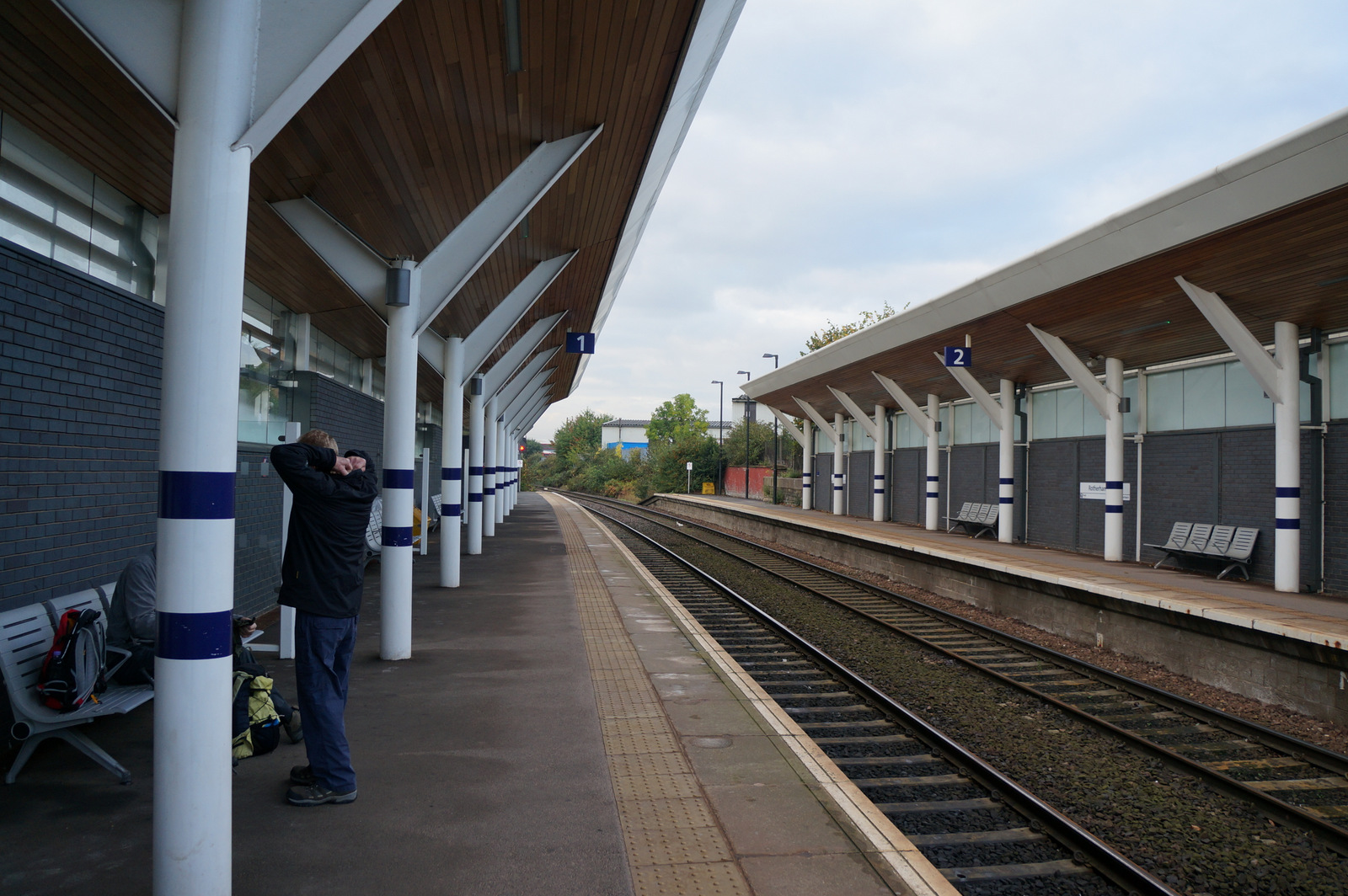 Rotherham Train Station